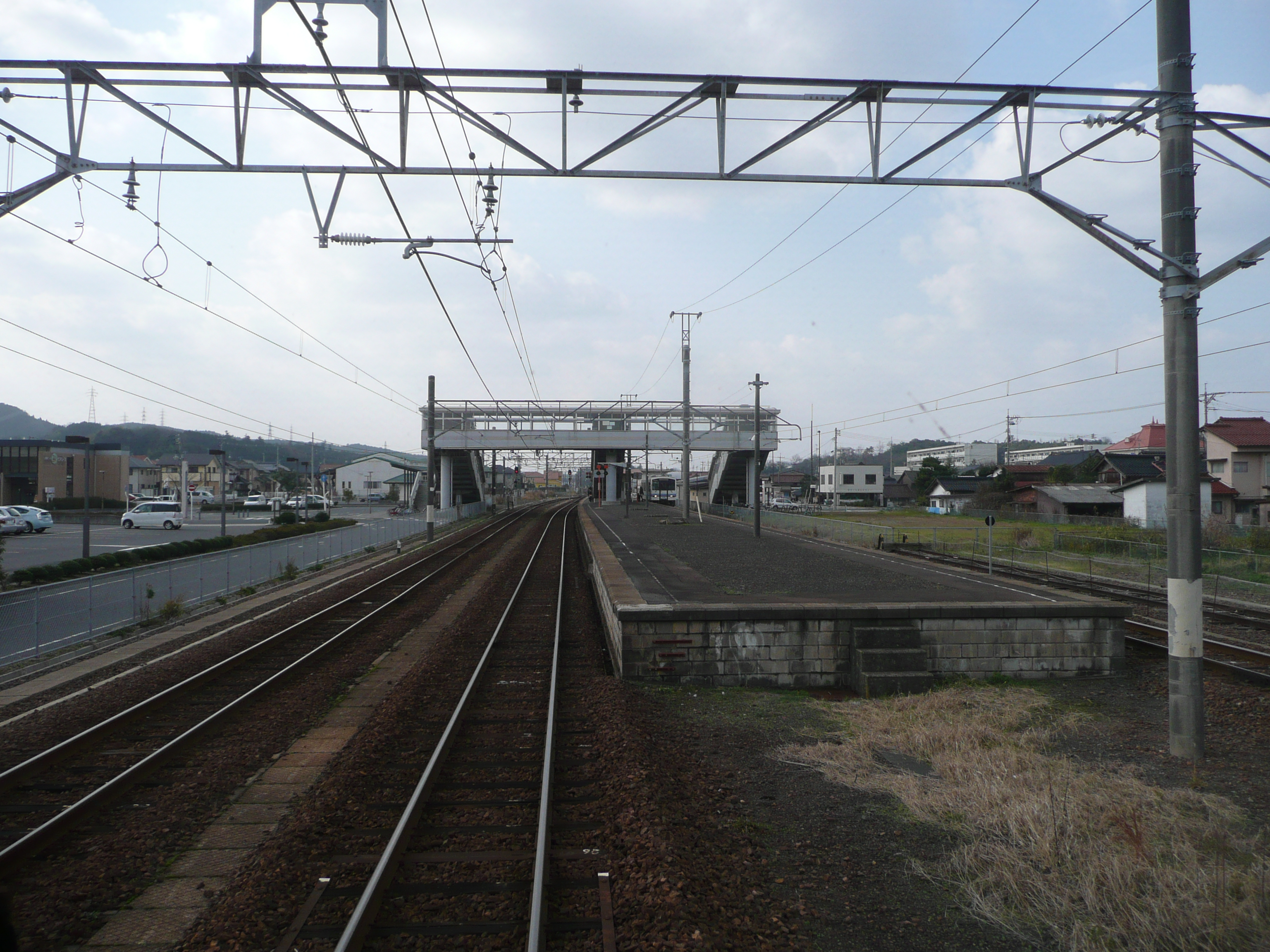 西出雲駅のホーム